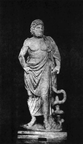 Statue of Asclepius, Greek god of Medicine